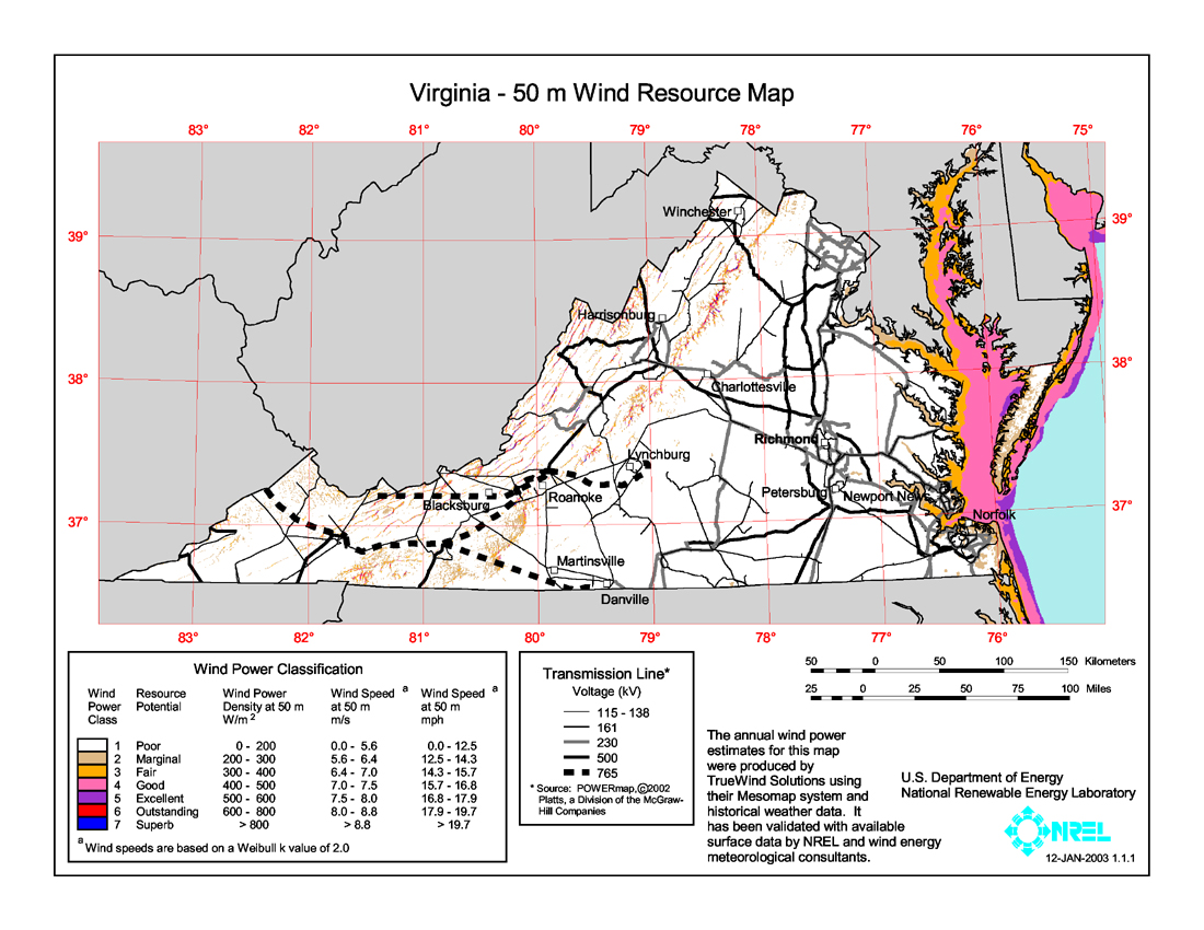 Average annual wind power distribution for Virginia, 50m height above ground, also showing location of existing electrical transmission lines